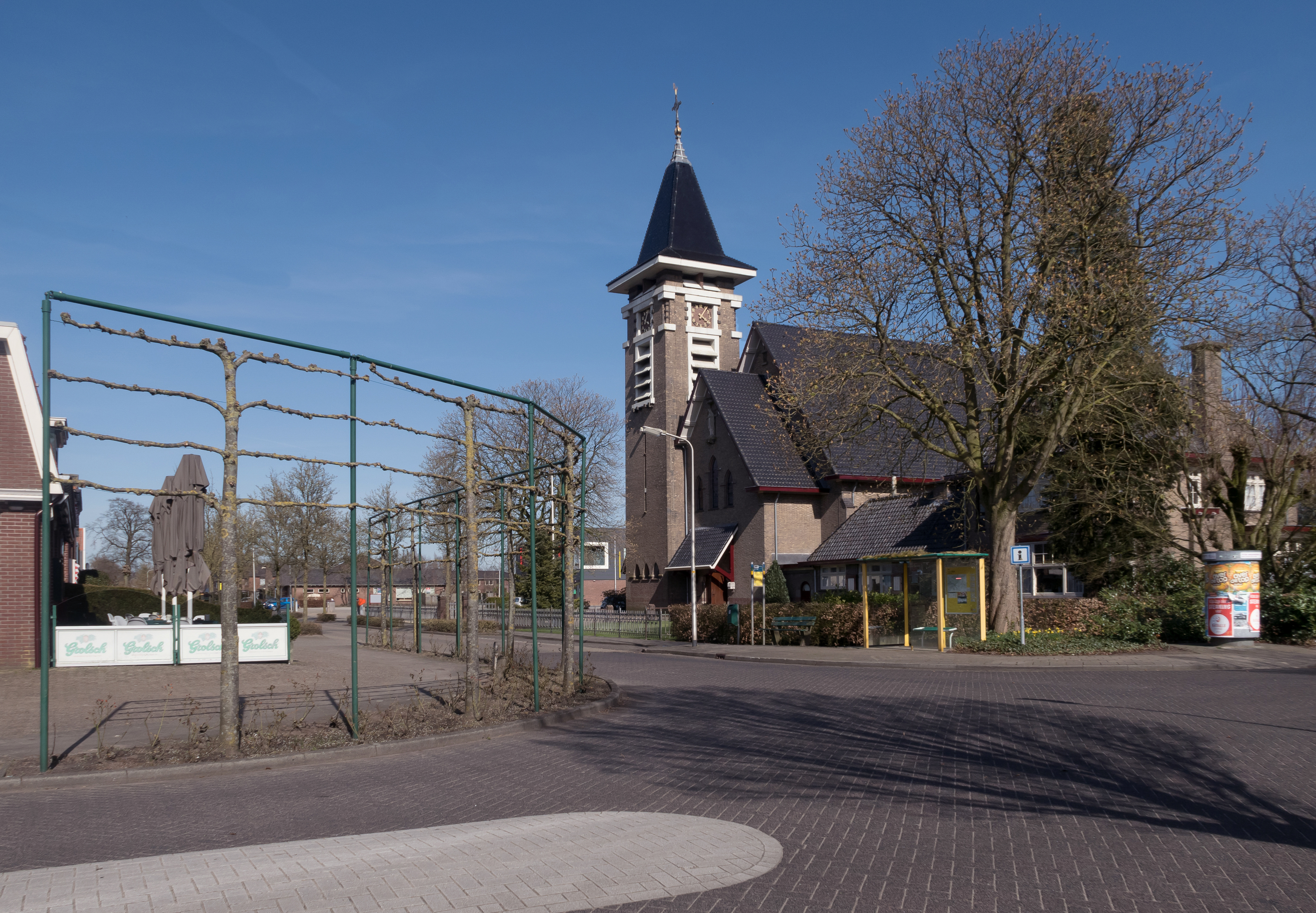 Mariënvelde, church - De Onze Lieve Vrouw van Lourdes